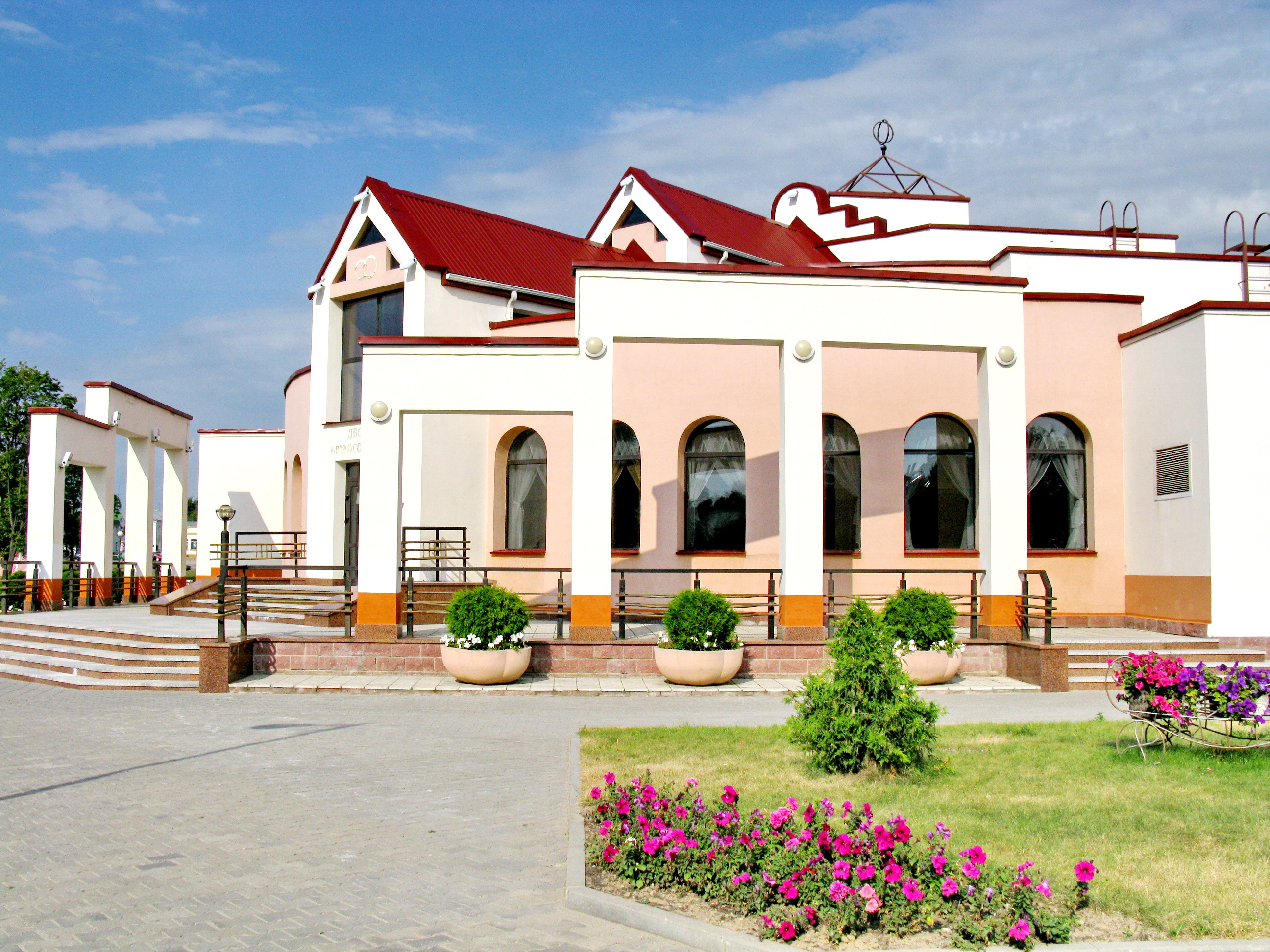 Smarhon registry office, Belarus